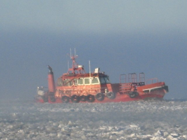 Pilot boat in Kemi, Finland.